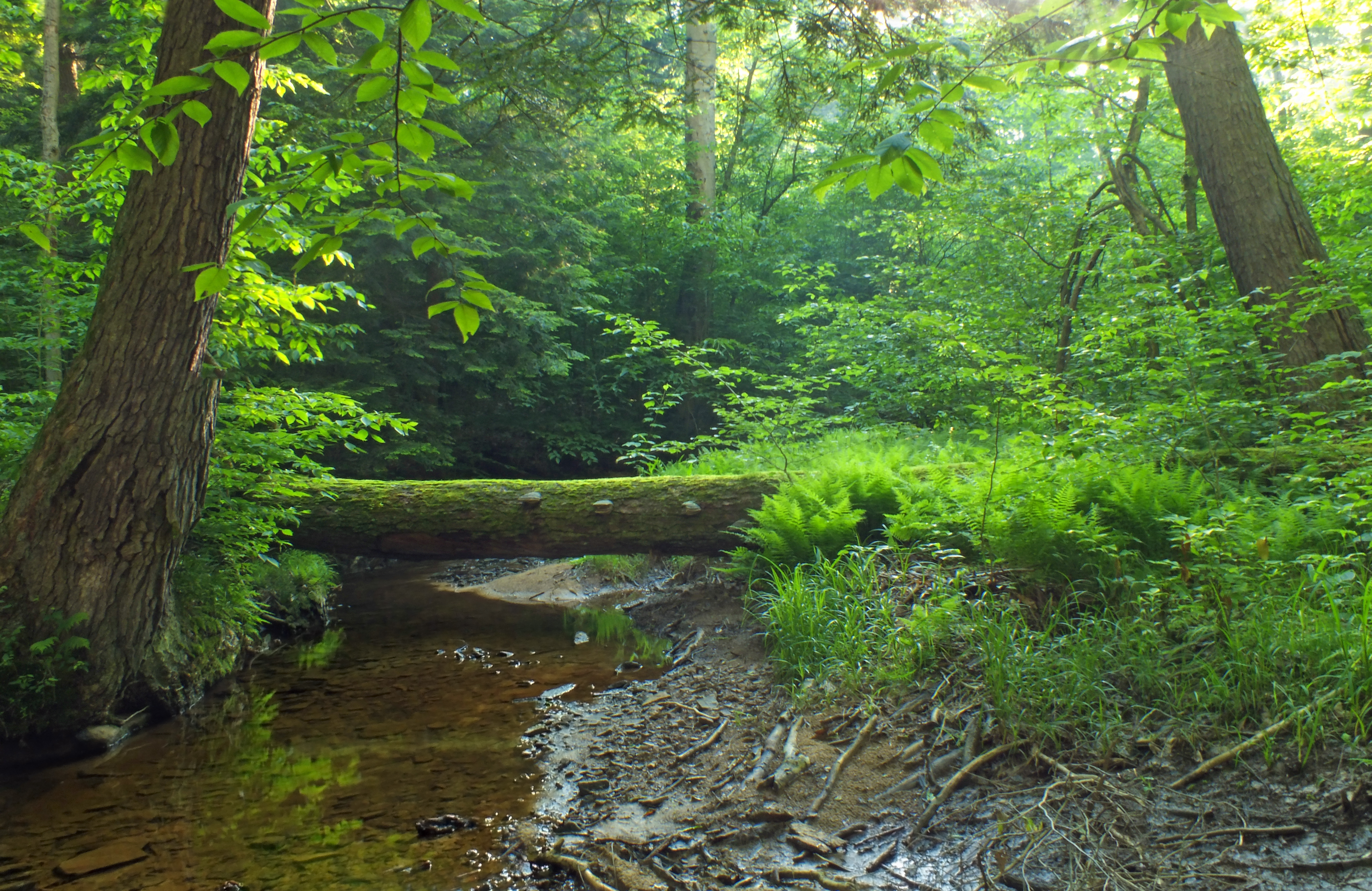 East Fork Run, McKean County, within the Tionesta Research Natural Area of Allegheny National Forest. The Tionesta Scenic and Research Natural Areas encompass 4000-plus acres of old-growth forest. The forest is magnificent; however, the combined effects of beech bark disease and weather disturbances (particularly the May 1985 tornado) have greatly opened the forest canopy. The Research Natural Area, unlike the adjacent Scenic Area, has no trails. The best access is from a pipeline swath that connects with Forest Road 443 northeast of Brookston.